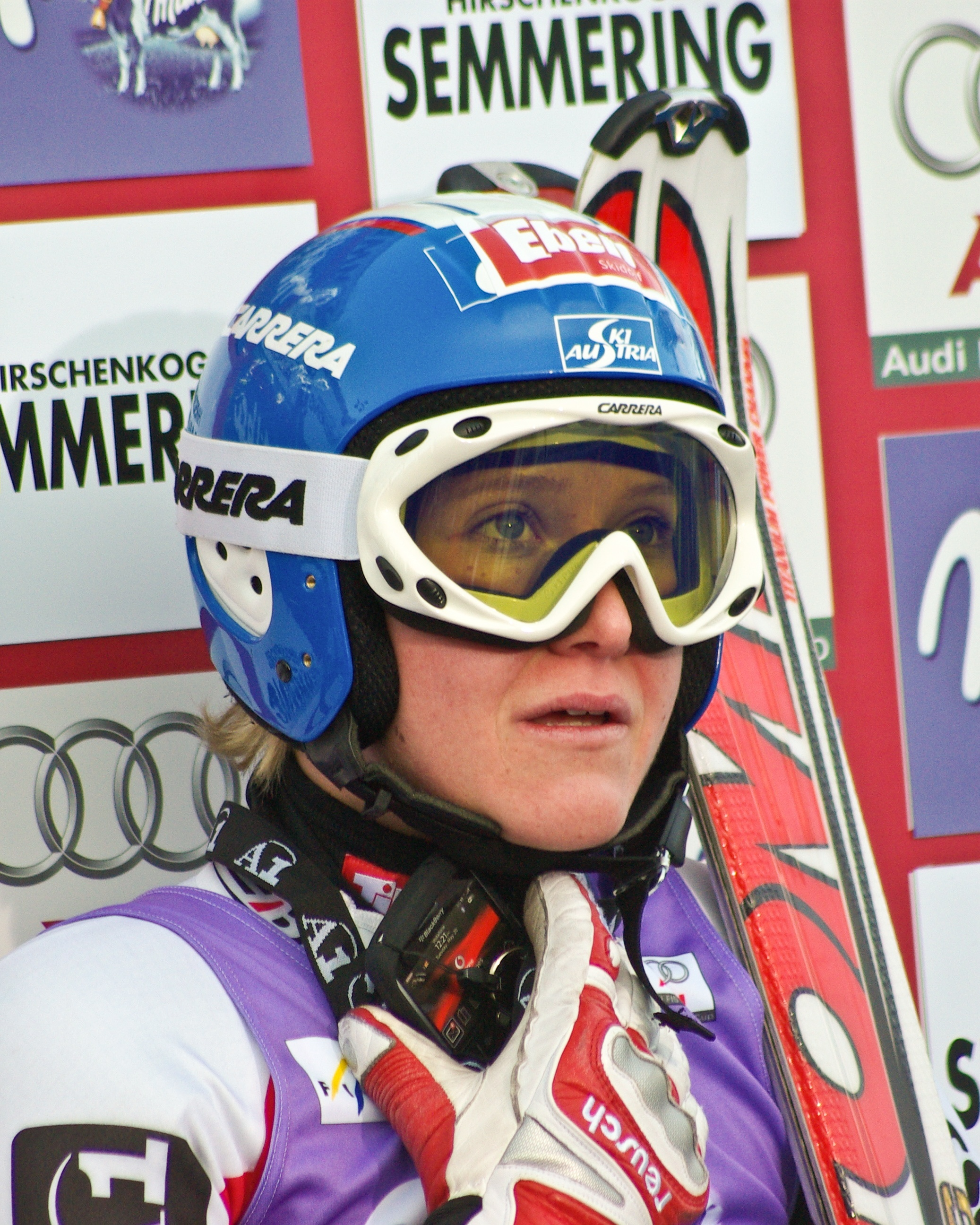 Austrian alpine skier Andrea Fischbacher after her second run in the giant slalom in Semmering (Austria) on 28 December 2008.